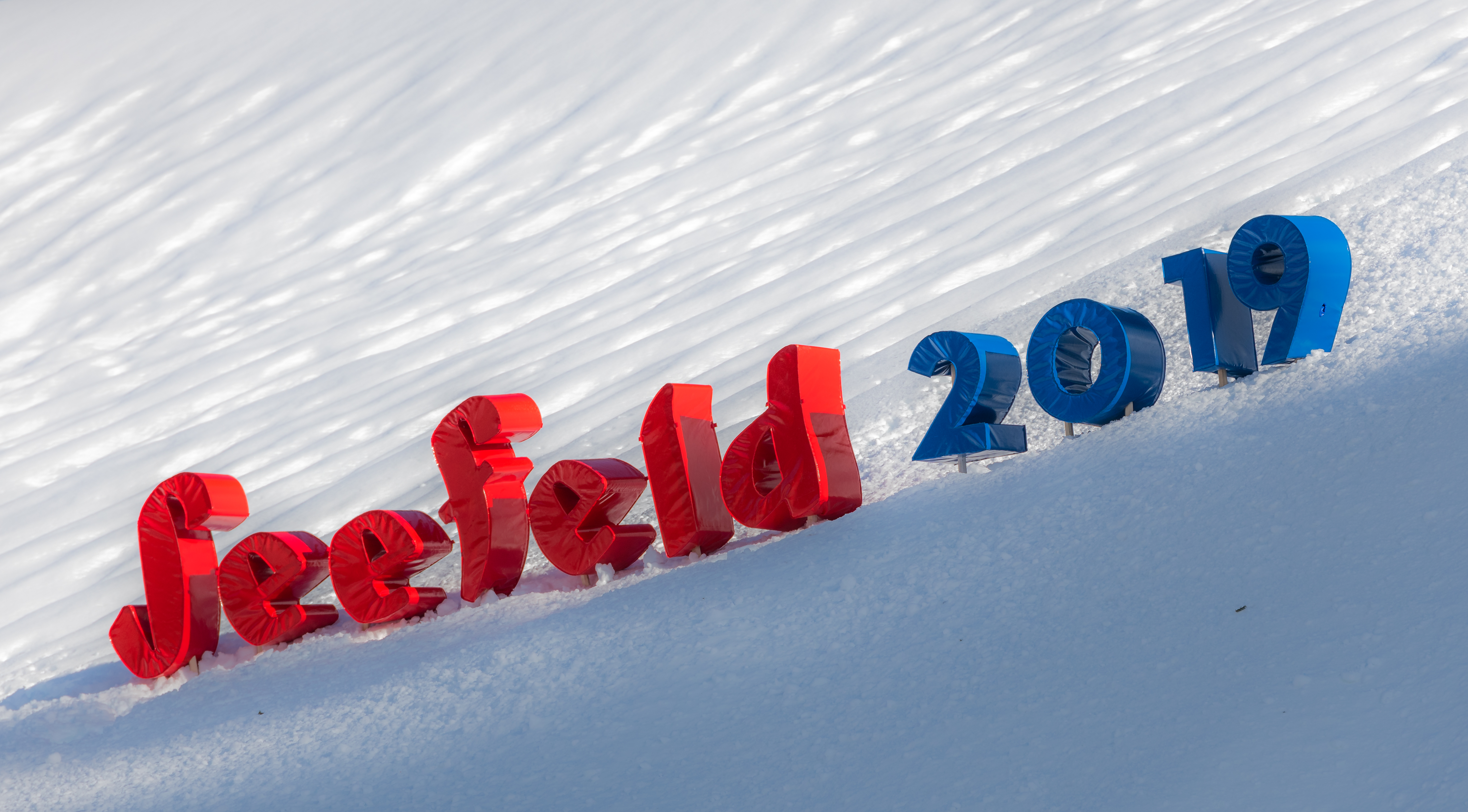 Seefeld-Triple 2018, first day January 26th. Picture shows banner Seefeld 2019